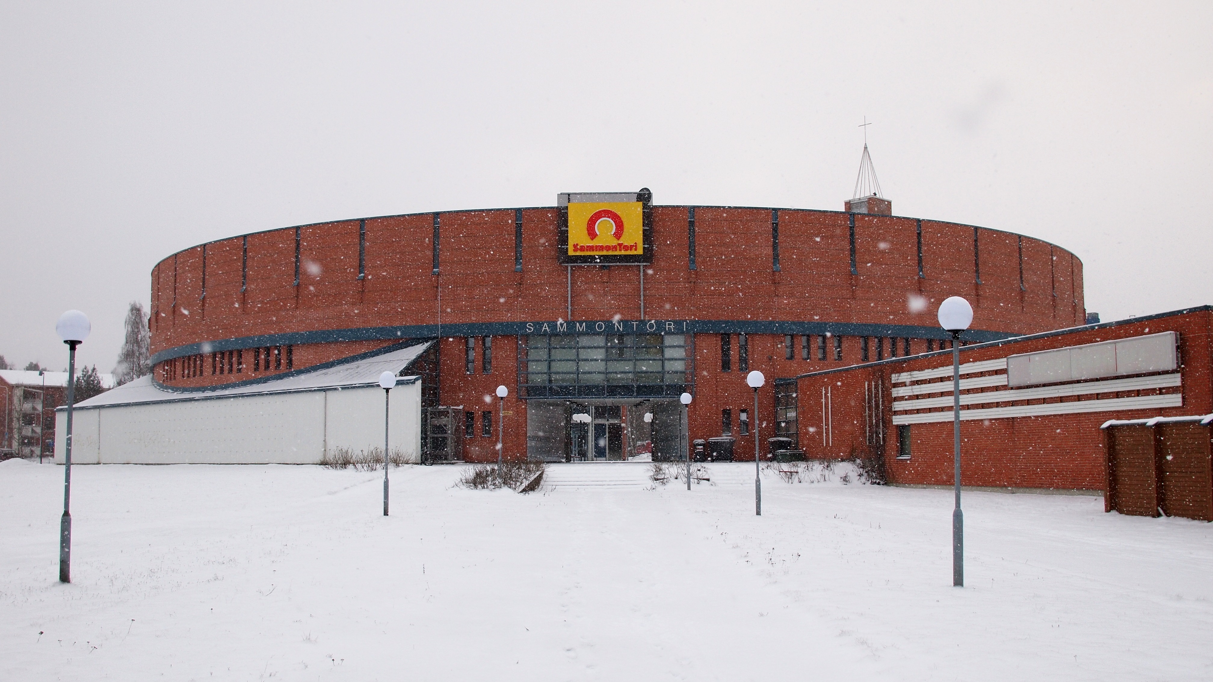 The round Sammontori building in the suburb of Sammonlahti in Lappeenranta, Finland.